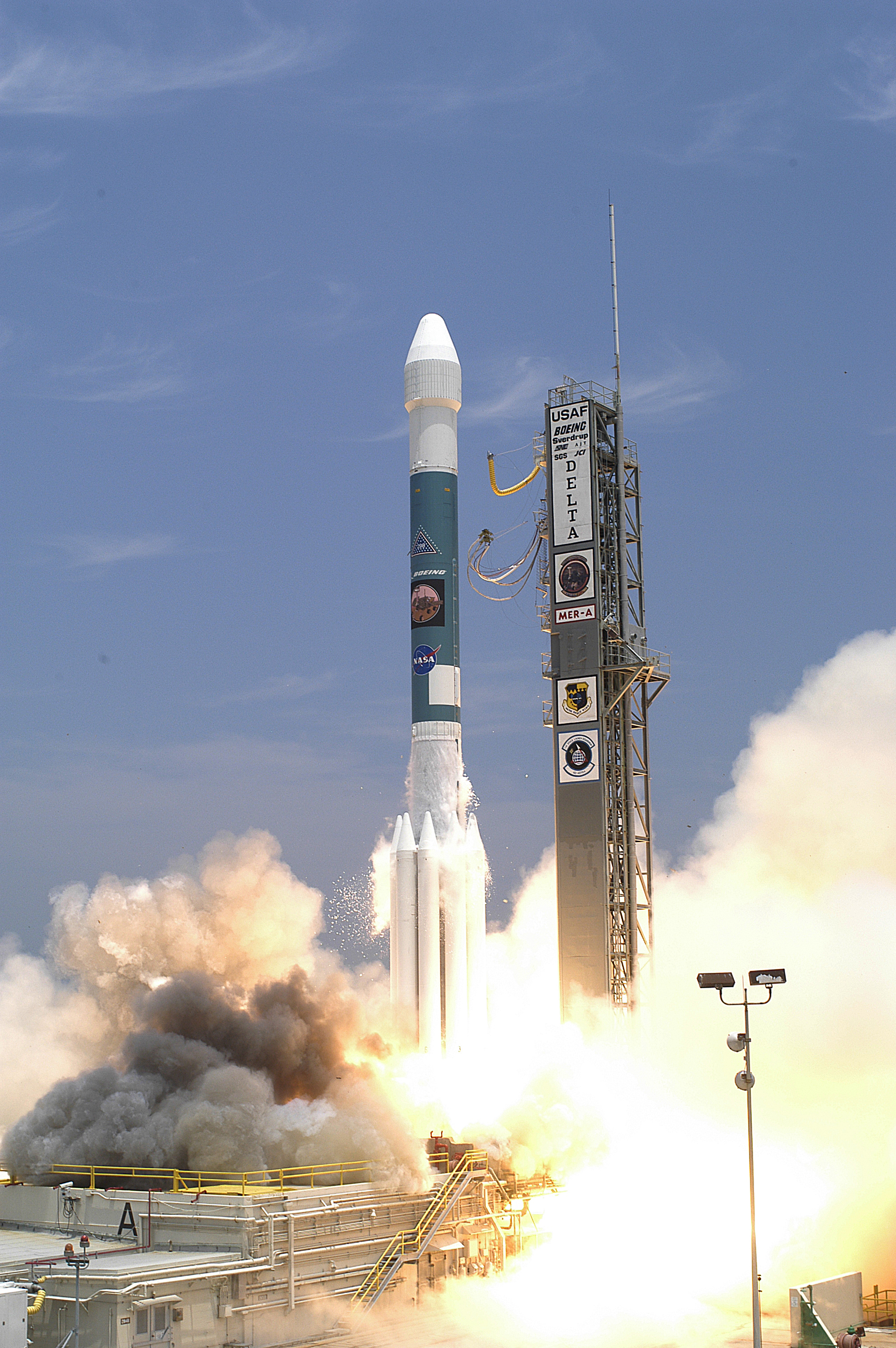 Amid billows of smoke and steam, the Delta II rocket with its Mars Exploration Rover (MER-A) payload lifts off the pad on time at 1:58 p.m. EDT from Launch Complex 17-A, Cape Canaveral Air Force Station. MER-A, known as Spirit, is the first of two rovers being launched to Mars. When the two rovers arrive at the red planet in 2004, they will bounce to airbag-cushioned landings at sites offering a balance of favorable conditions for safe landings and interesting science. The rovers see sharper images, can explore farther and examine rocks better than anything that has ever landed on Mars. The designated site for the MER-A mission is Gusev Crater, which appears to have been a crater lake. The second rover, MER-B, is scheduled to launch June 25.